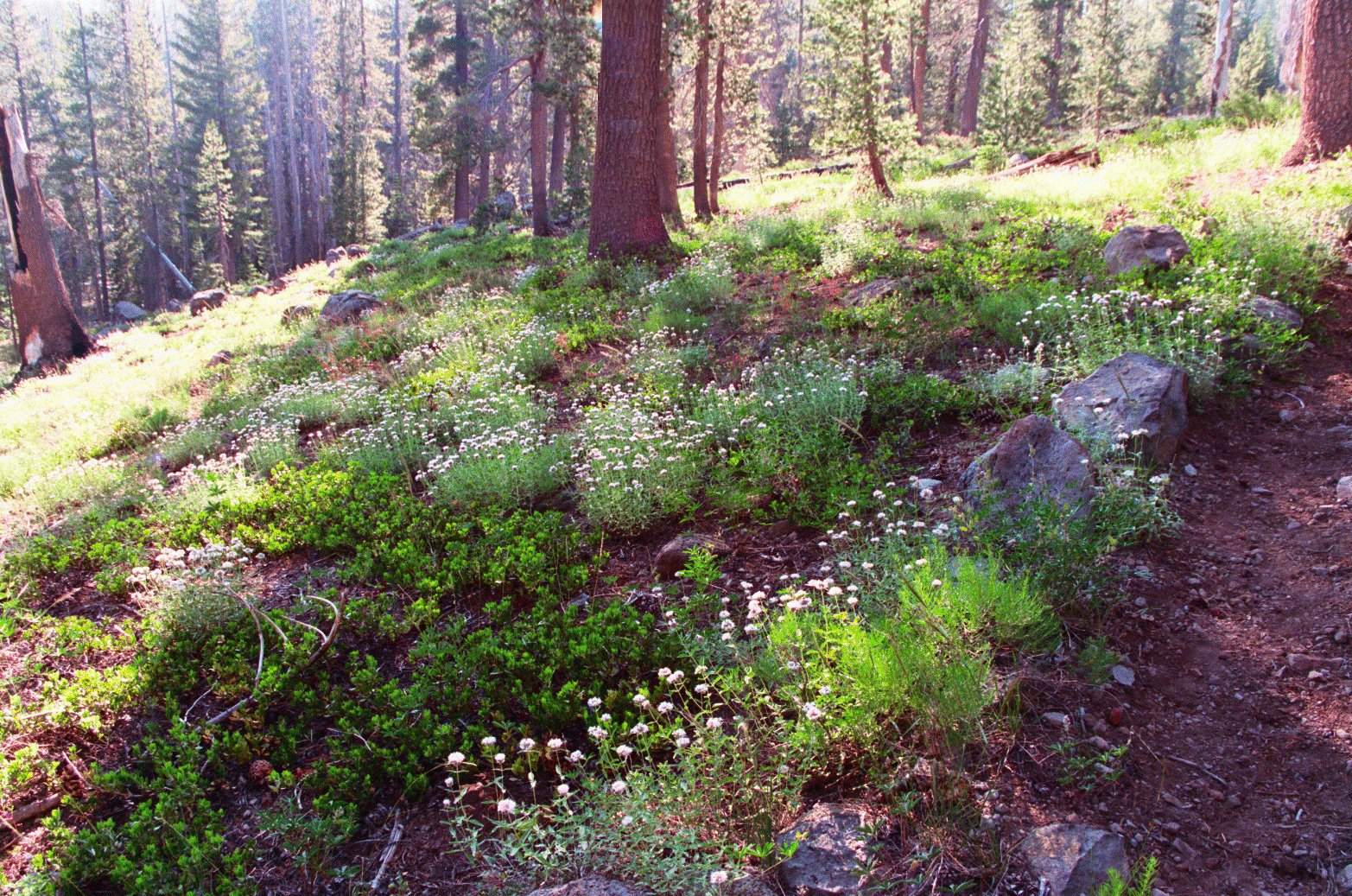 Caribou Wilderness — in Lassen National Forest, Northern California.